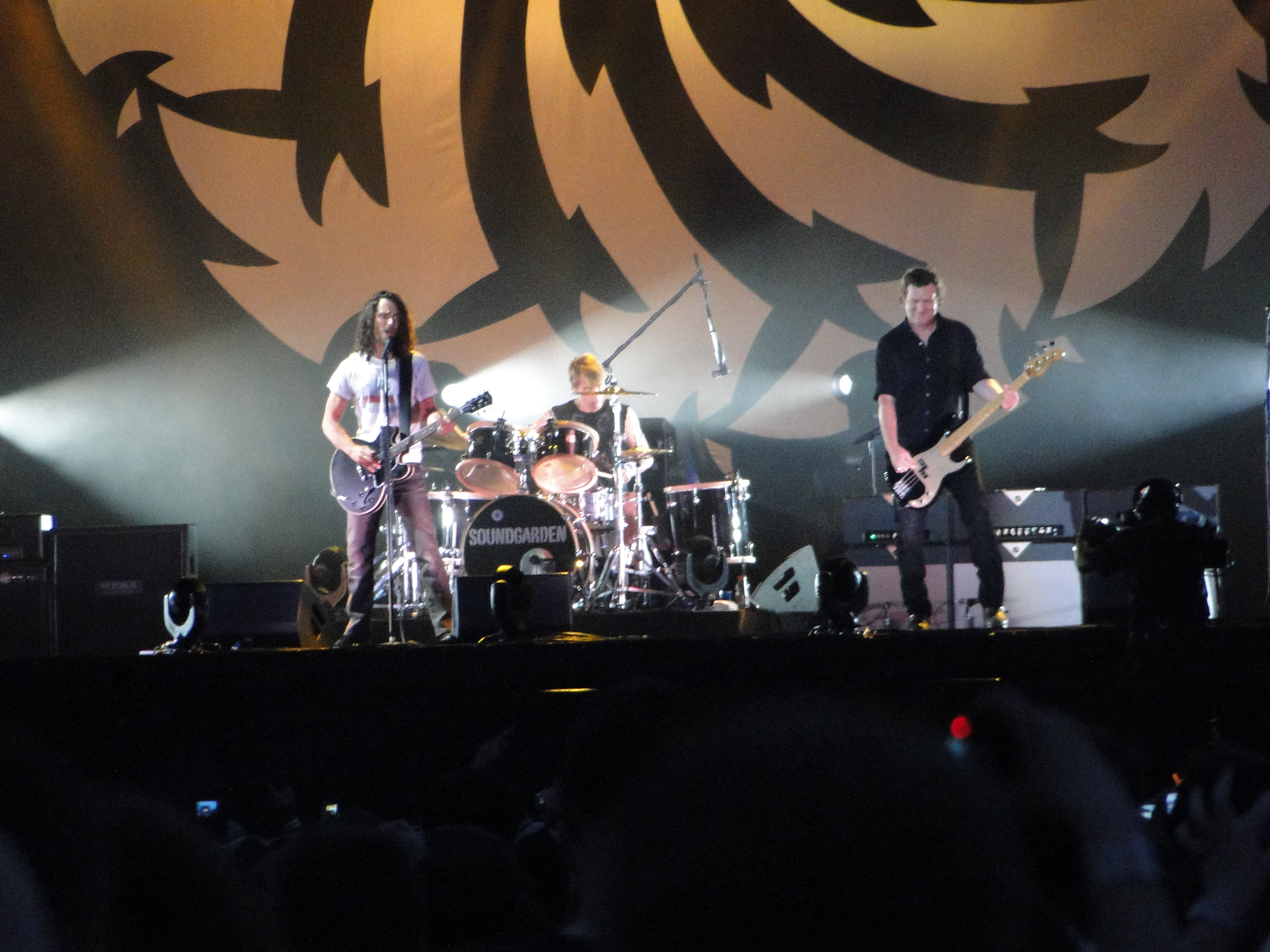 American rock band Soundgarden performing at Lollapalooza in Chicago in 2010. Left to right: Chris Cornell, Matt Cameron, and Ben Shepherd